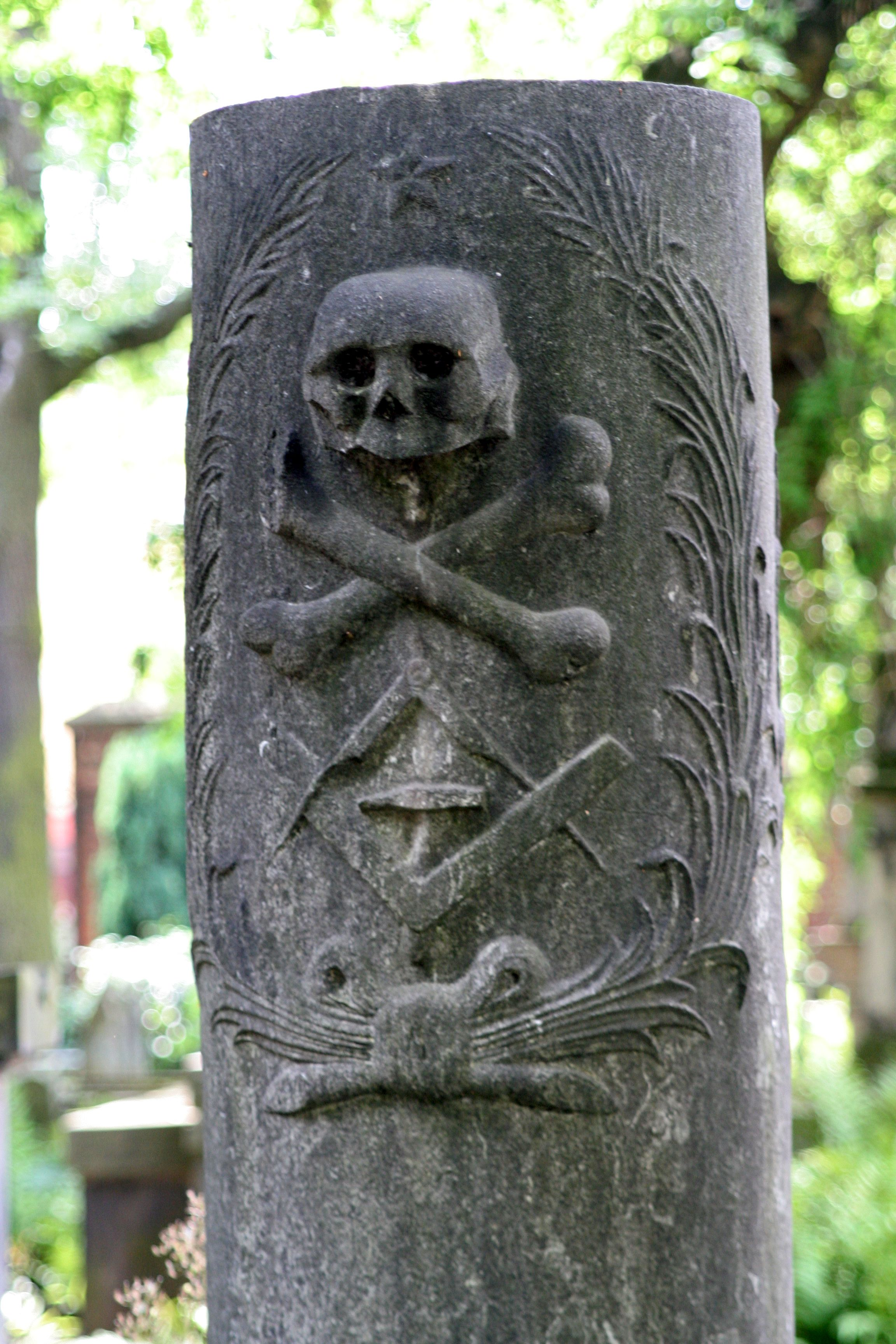 Freemason symbols at Protestant Reformed Cemetery, Warsaw.